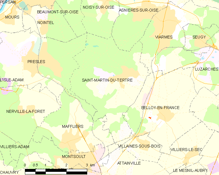 Map of French municipality Saint-Martin-du-Tertre